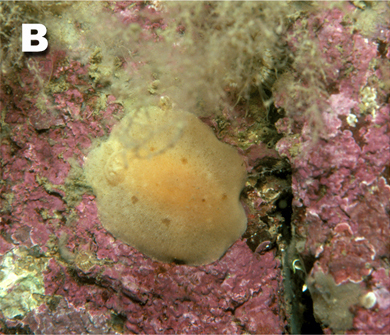 Photo of Jorunna tomentosa (Cuvier, 1804) (Anthobranchia) from the Northern Sea, attached to rocks with corralineacean red algae and mimicking a sponge (Halichondria).